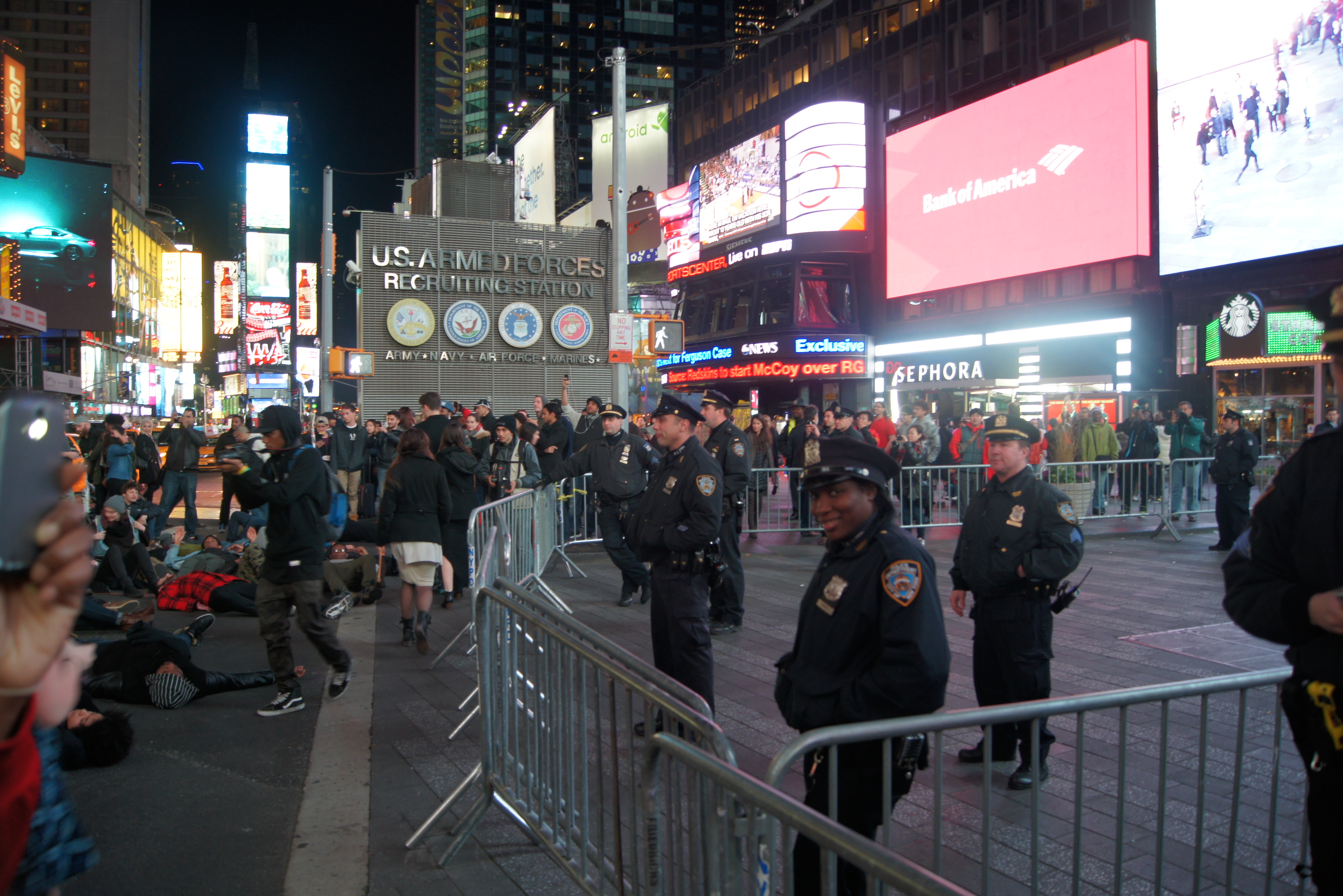 Image is from the protests surrounding the grand jury decision in the Mike Brown Shooting that took place in NYC on Nov/25/14.